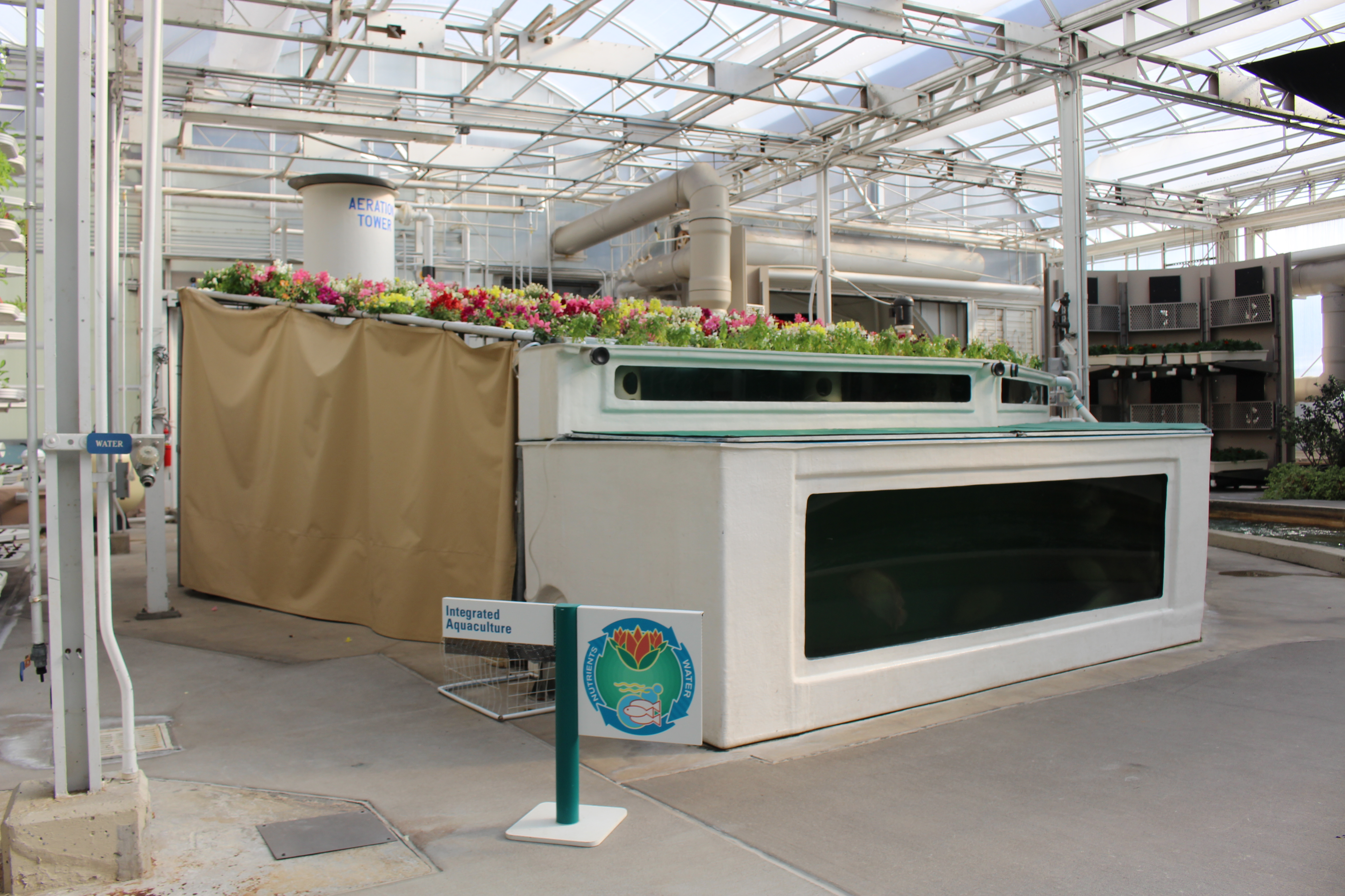 Living with the Land, The Land, Epcot, Bay Lake, Orange County, Florida